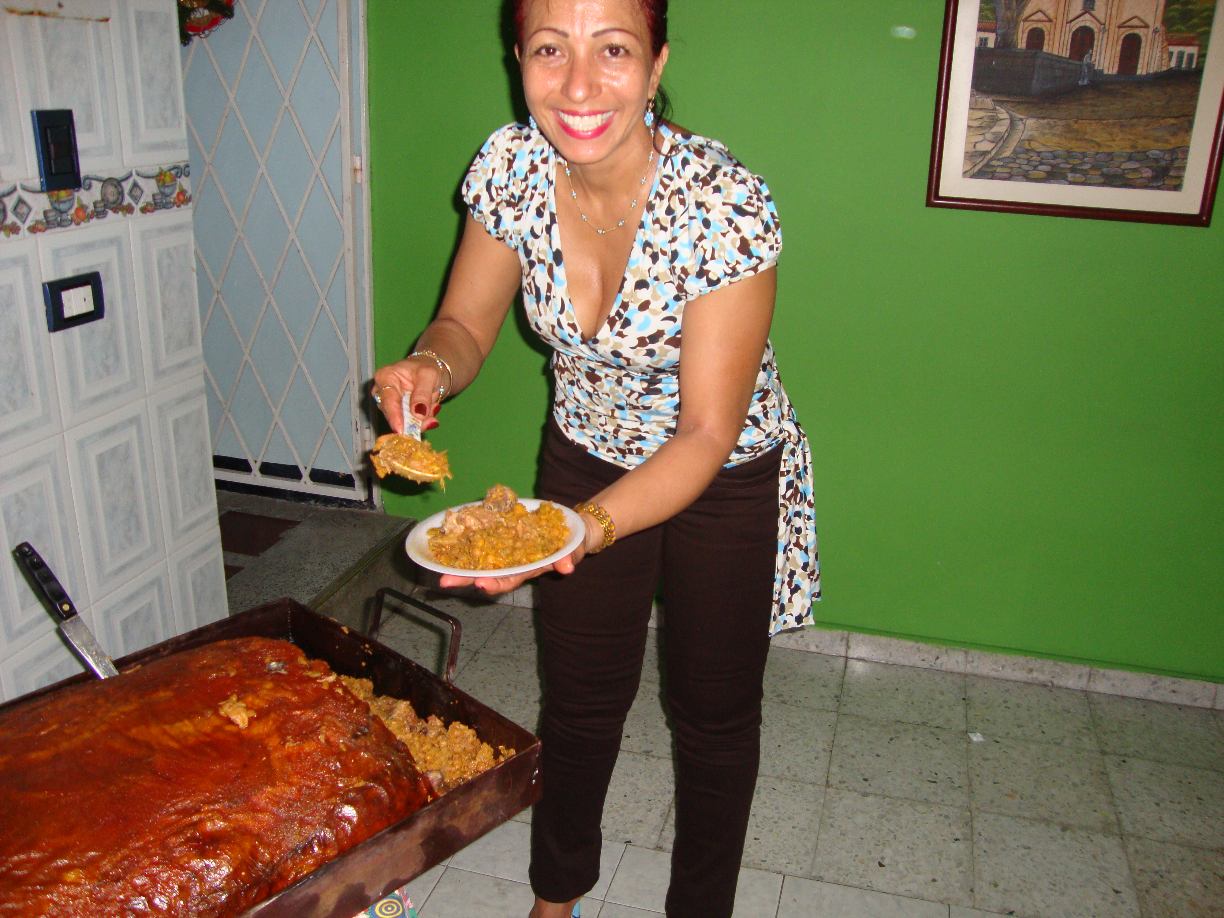 Mujer del departamento del Tolima serviendo lechona